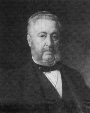 Ramón de Campoamor at the Ateneo de Madrid ("Athenæum of Madrid").